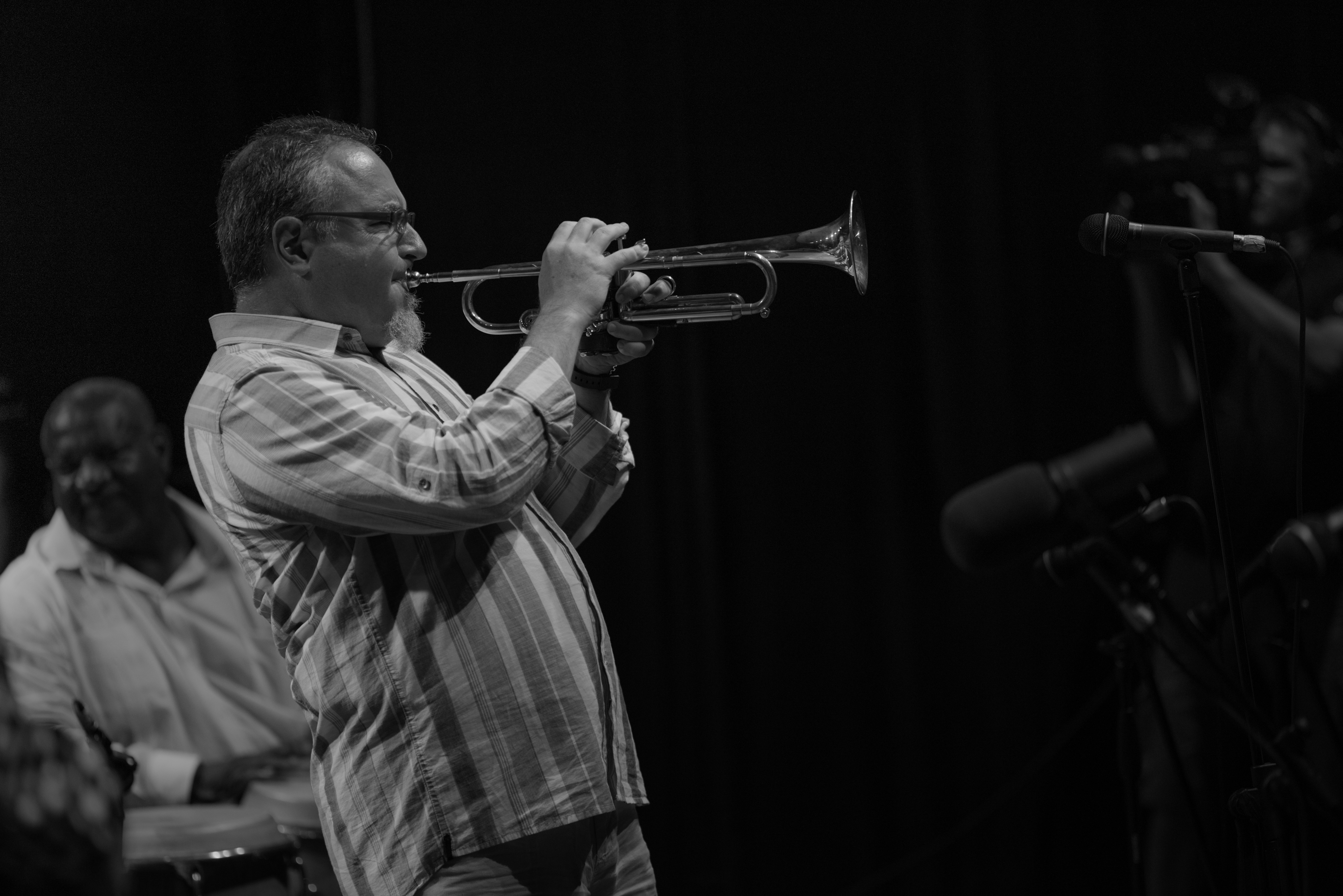 19º FESTIVAL INTERNACIONAL DE JAZZ DE PUNTA DEL ESTE Luis Perdomo Cuarteto Johnattan Blake / batería Hans Glawischnig /bajo Luis Perdomo / piano Mark Shim / saxo tenor – wind controller Martin Wind Cuarteto Homenaje a Bill Evans Bill Cunliffe /piano Joe La Barbera / batería Martin Wind / bajo Scott Robinson / saxotenor Paquito D'Rivera presenta: Homenaje a Chano Pozo Alex Brown /piano Eric Doob / batería Zachary Brown / bajo Pernell Saturnino /percusión Diego Urcola / trompeta Paquito D'Rivera / saxo alto FINCA EL SOSIEGO, Maldonado, Uruguay Camera: NIKON D810 Lens: Zeiss Apo Sonnar T* 2/135 ZF.2 0 ISO: 800